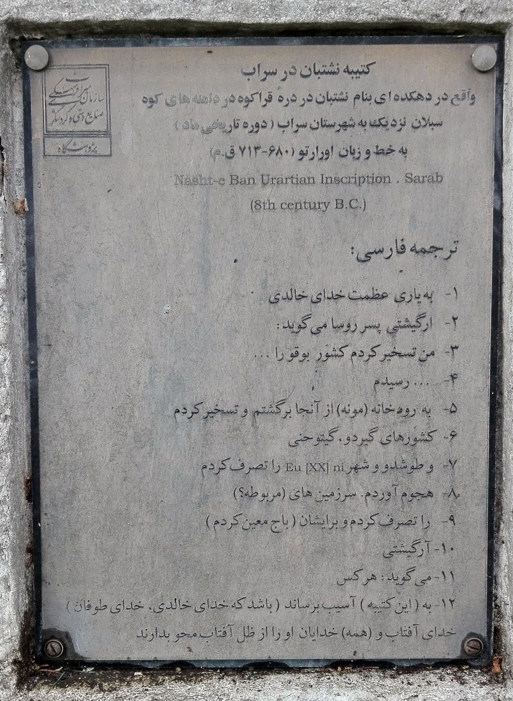 taken in inscription garden, Tehran